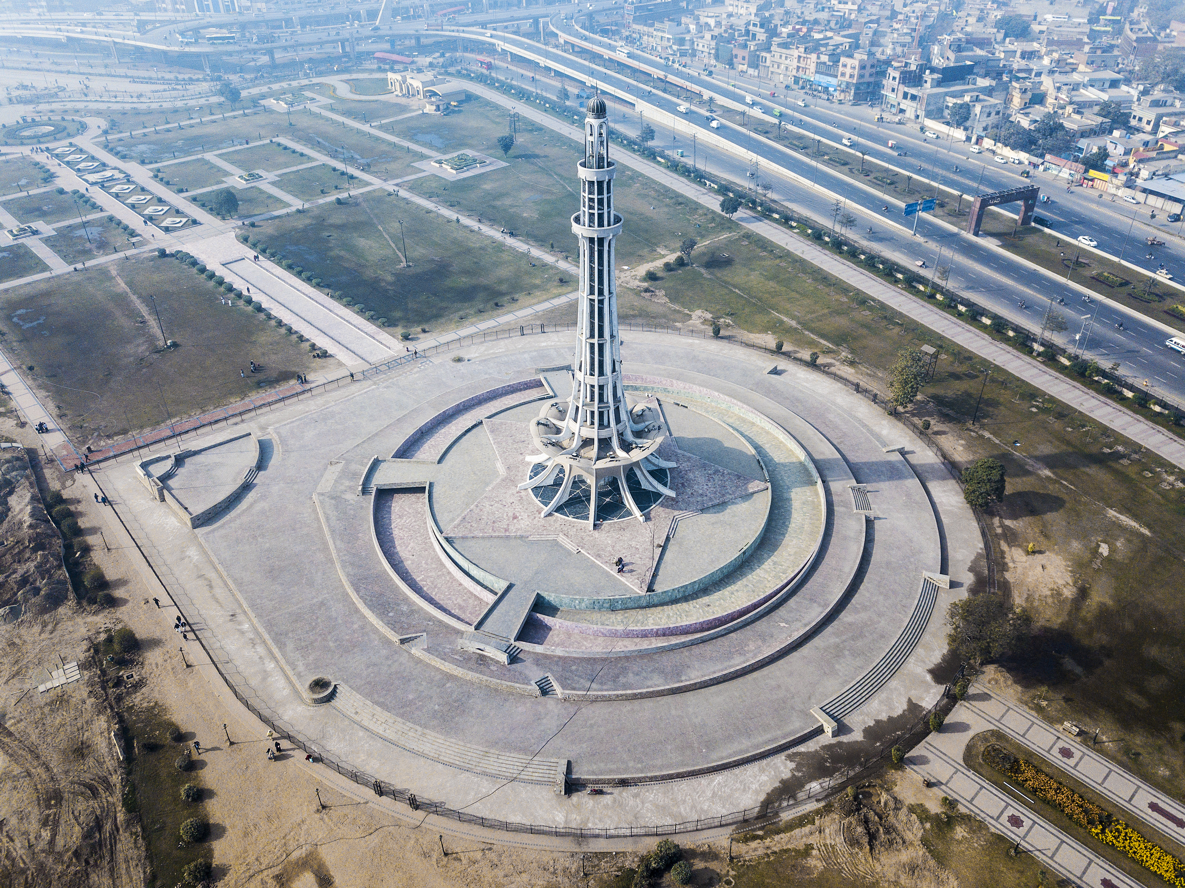 Minar-e-Pakistan This is a photo of a monument in Pakistan identified as the PB-73